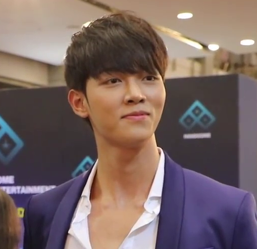 Itthipat Thanit "God" at Event Handsome Golden Carpet